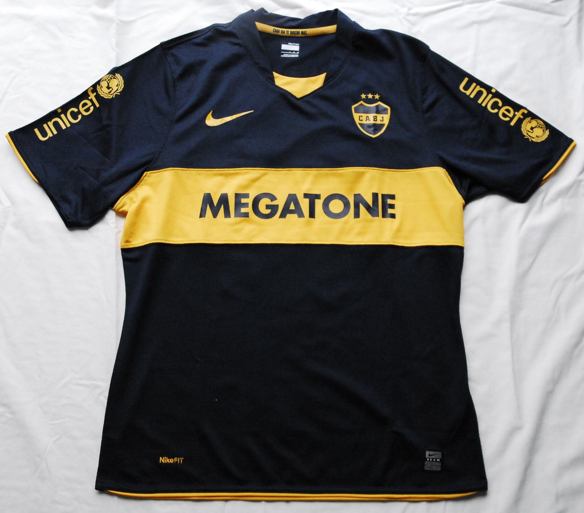 Boca Juniors 2008-2009 Home Jersey